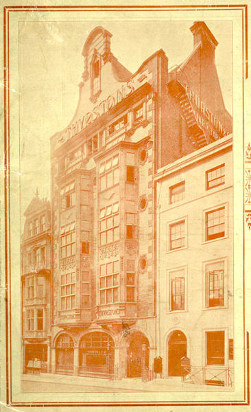 Front view of Thurstons